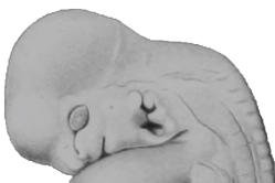 Standard Event System character depiction